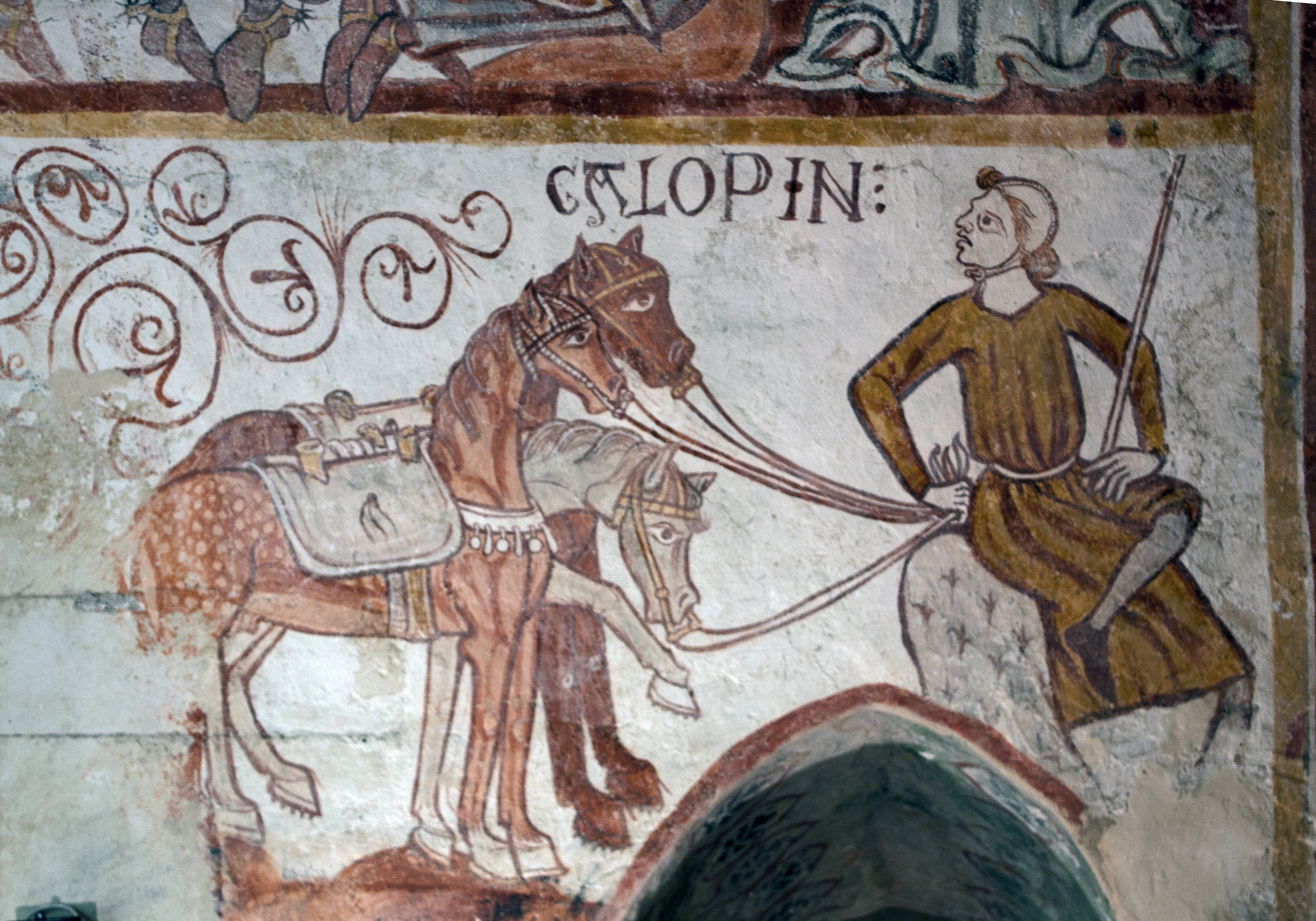 The “rascal” keeps the horses while the adoration of the Magi..